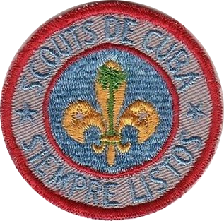 Cuban scout contingent badge to the 1959 World Scout Jamboree held in the Philippines